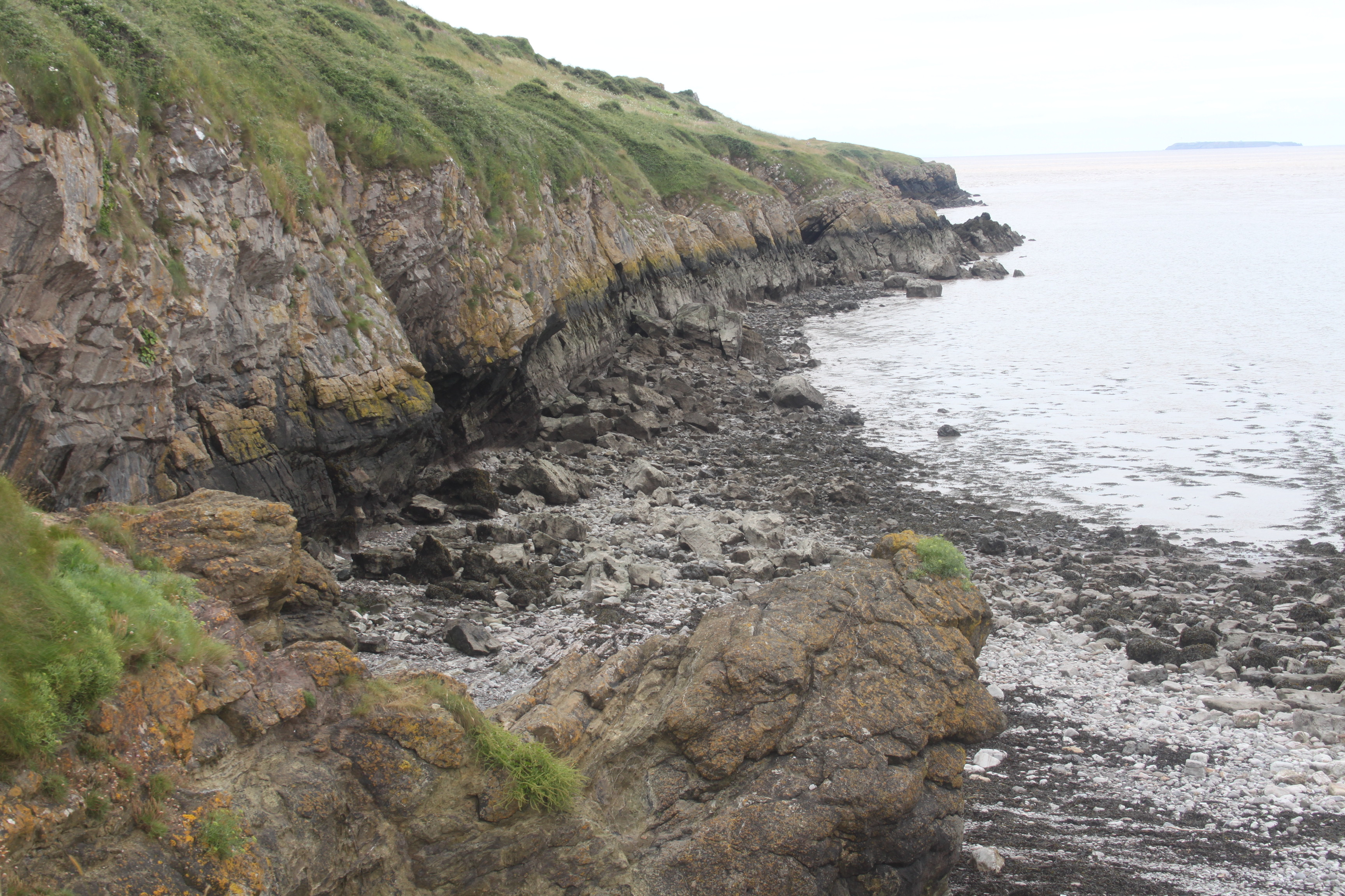 View of Sand Point and Middle Hope